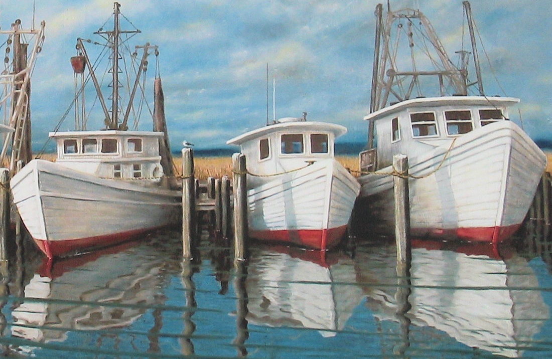 Detail from a Fulton, Texas, outdoor advertisement for a gallery.